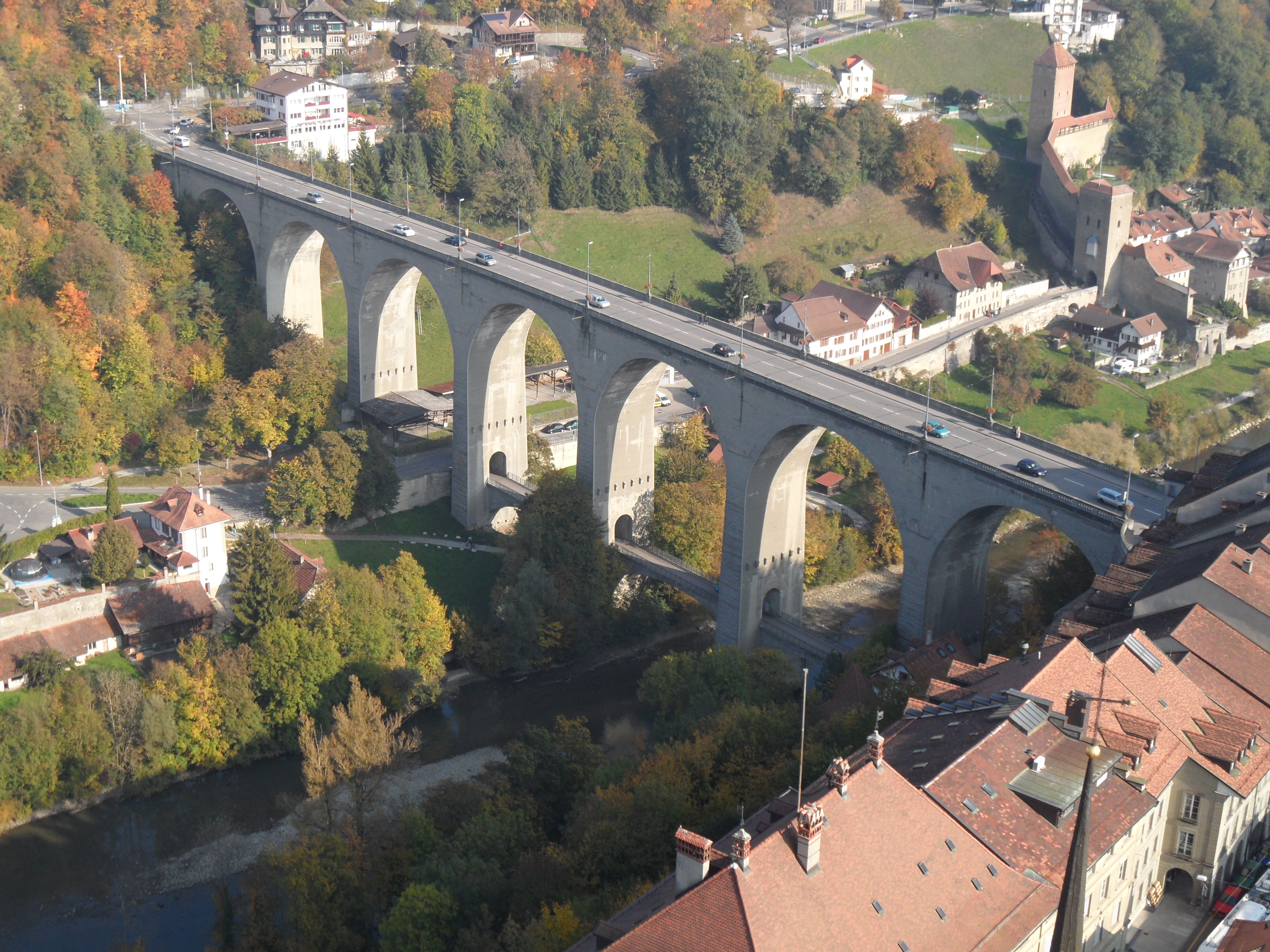 Northwest side of the bridge Zaehringen, overcoming the Sarine in Fribourg. View from the bell tower of the cathedral.